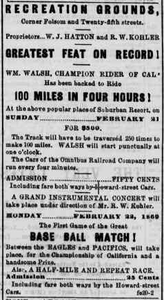 Newspaper clipping advertisement Feb 20 1869 for events at the Recreation Grounds, including bicycling, music concert, baseball championship and foot racing.